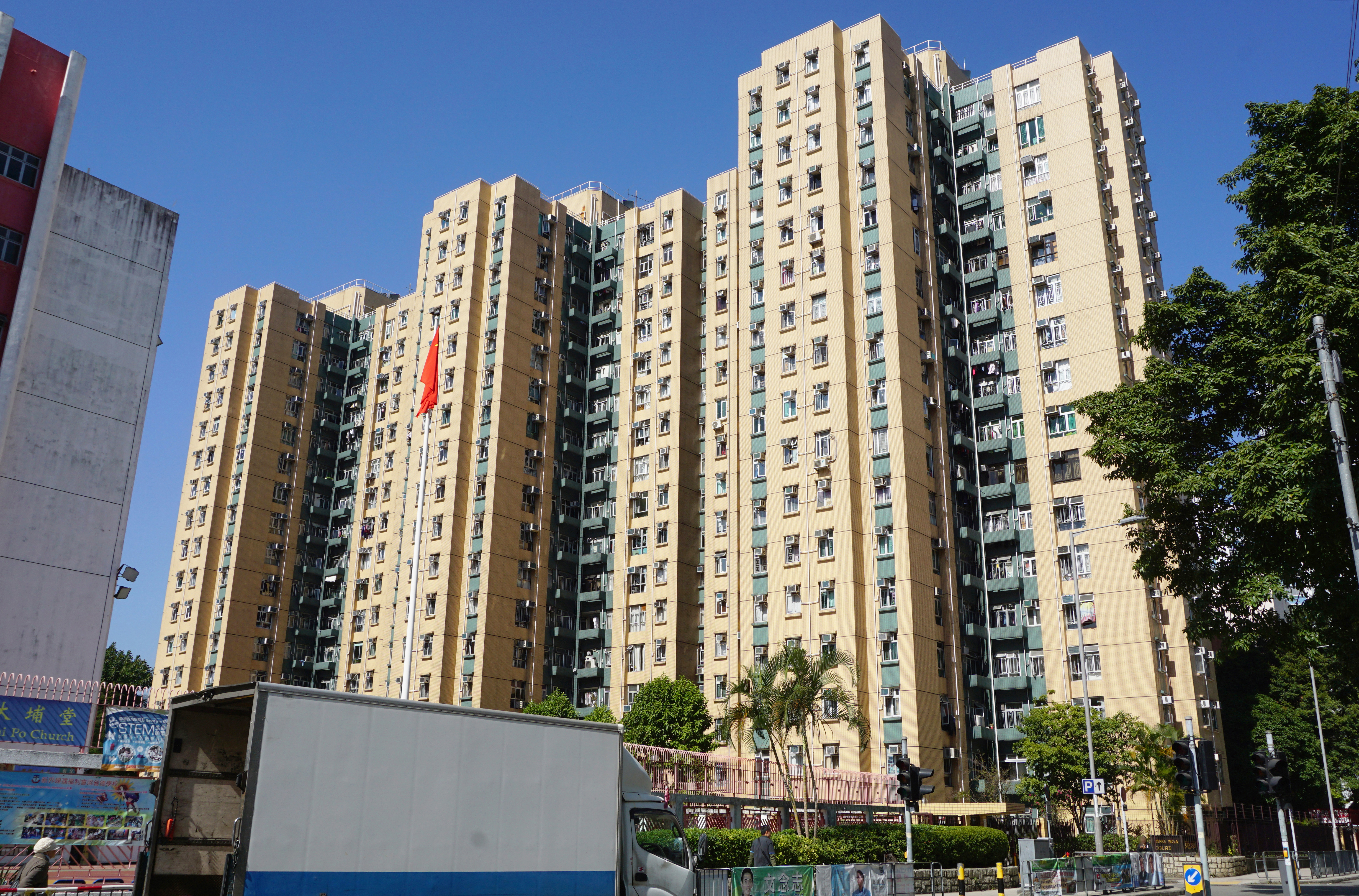 Ting Nga Court in Tai Po, Hong Kong.